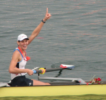 Caryn Davies after winning Gold in the Beijing Olympics